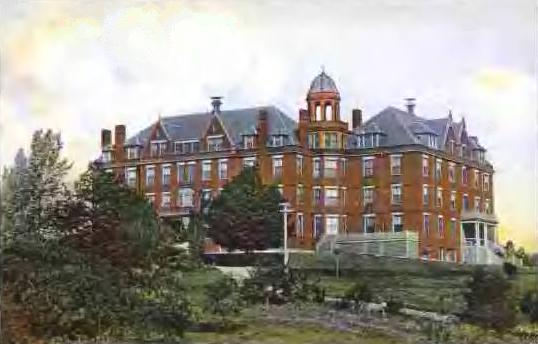 Frederick Robie Hall, University of Southern Maine, Gorham, ME; from a 1907 postcard.